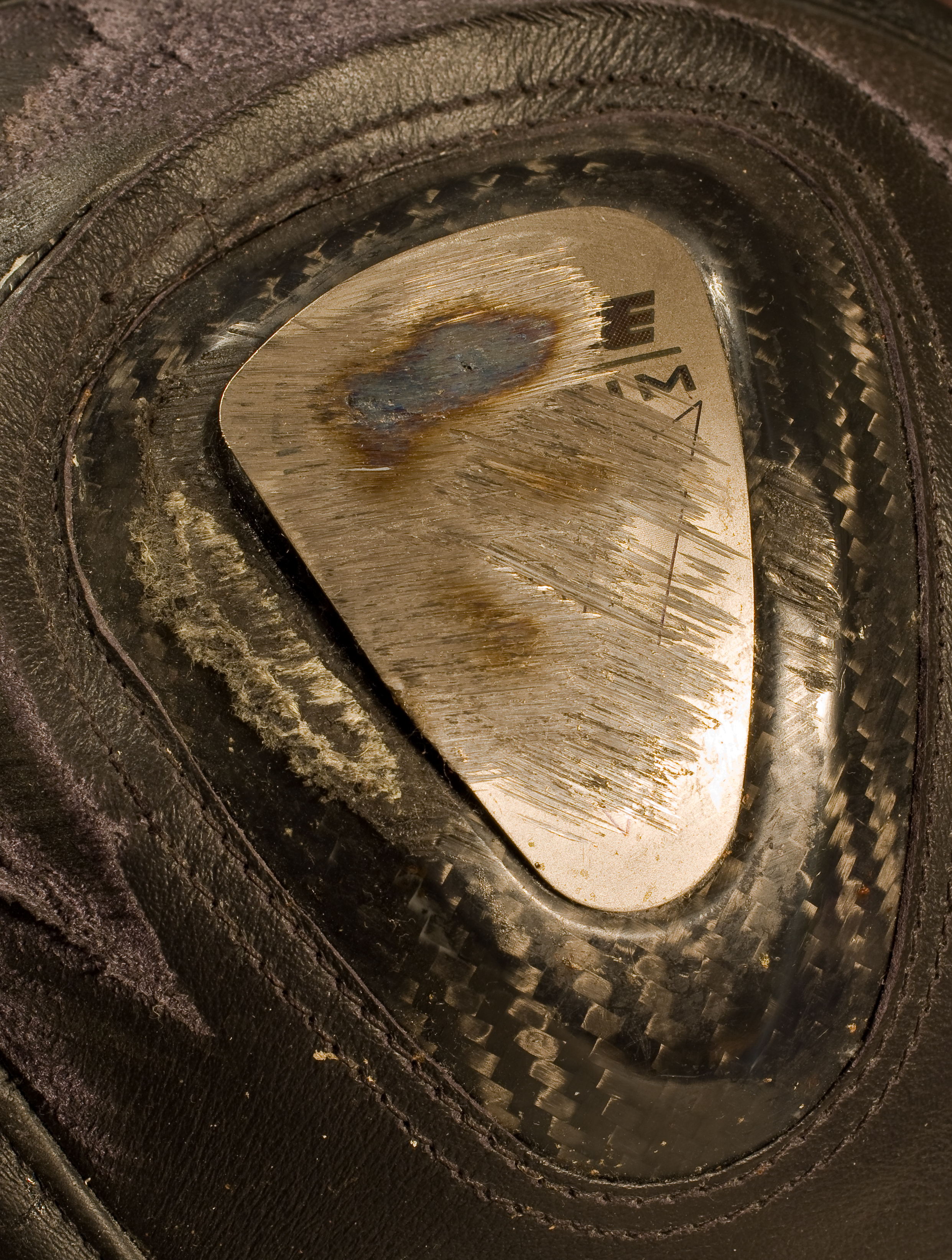 Shoulder and slide panel of a motorcycling racing leathers after a race track crash. The rider crashed at speed of approximately 150 km/h (100 mp/h) and escaped the crash with bruises without torn ligaments or broken bones. Notice how the titanium slider (silver part) has burnt through due to extreme friction, while the carbon fibre panel has collapsed through shock while absorbing the force of the impact. Abrasion damage can be seen on the leather parts.